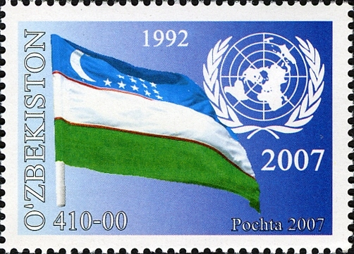 Stamps of Uzbekistan, 2007